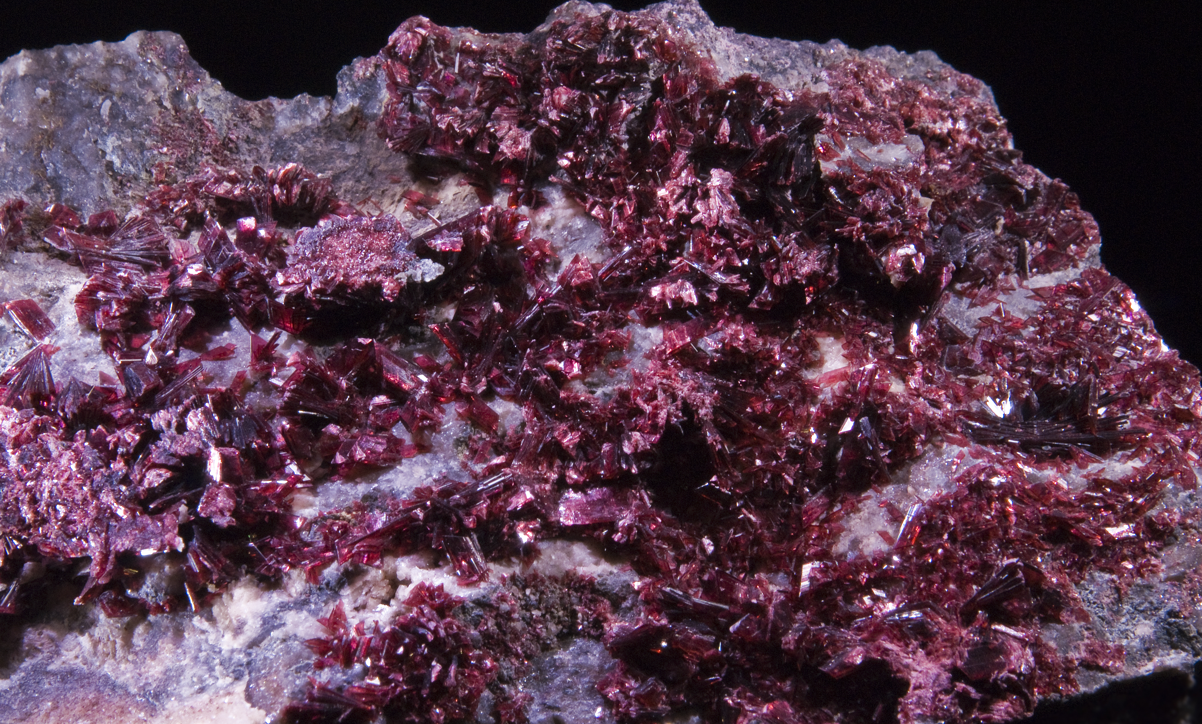 Erythrite - Bou Azzer District, Tazenakht, Ouarzazate Province, Souss-Massa-Draâ Region, Morocco (8x6cm)